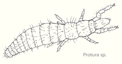 A drawing by Halvard from Norway, and released under GNU FDL. A Protura sp.